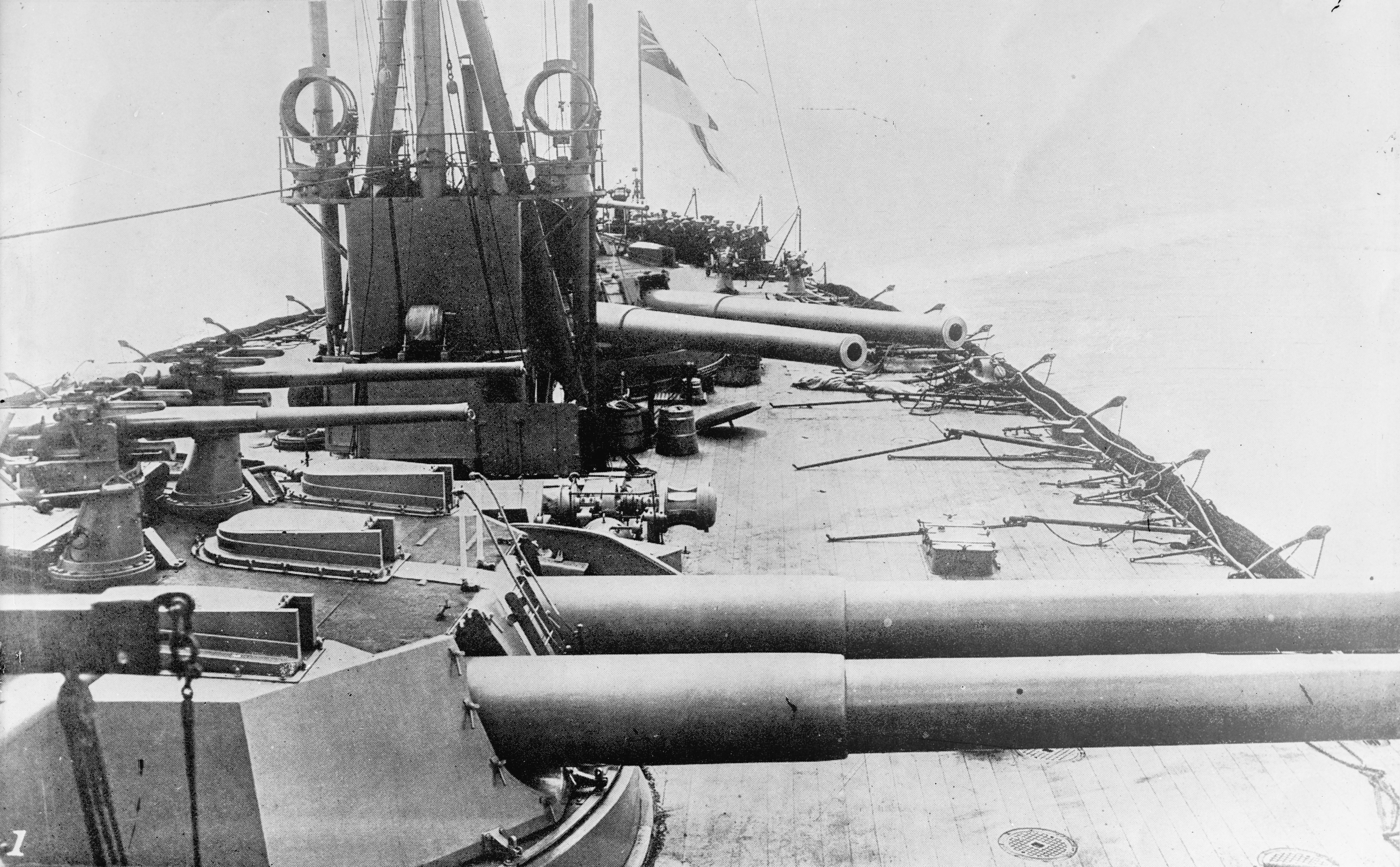 Photograph of HMS Dreadnought (1906) showing the aft 12 inch Mk X gun turrets, with 2 QF 12 pounder 18 cwt guns, for defence against torpedo boats, mounted on the roof of X turret (nearest camera).